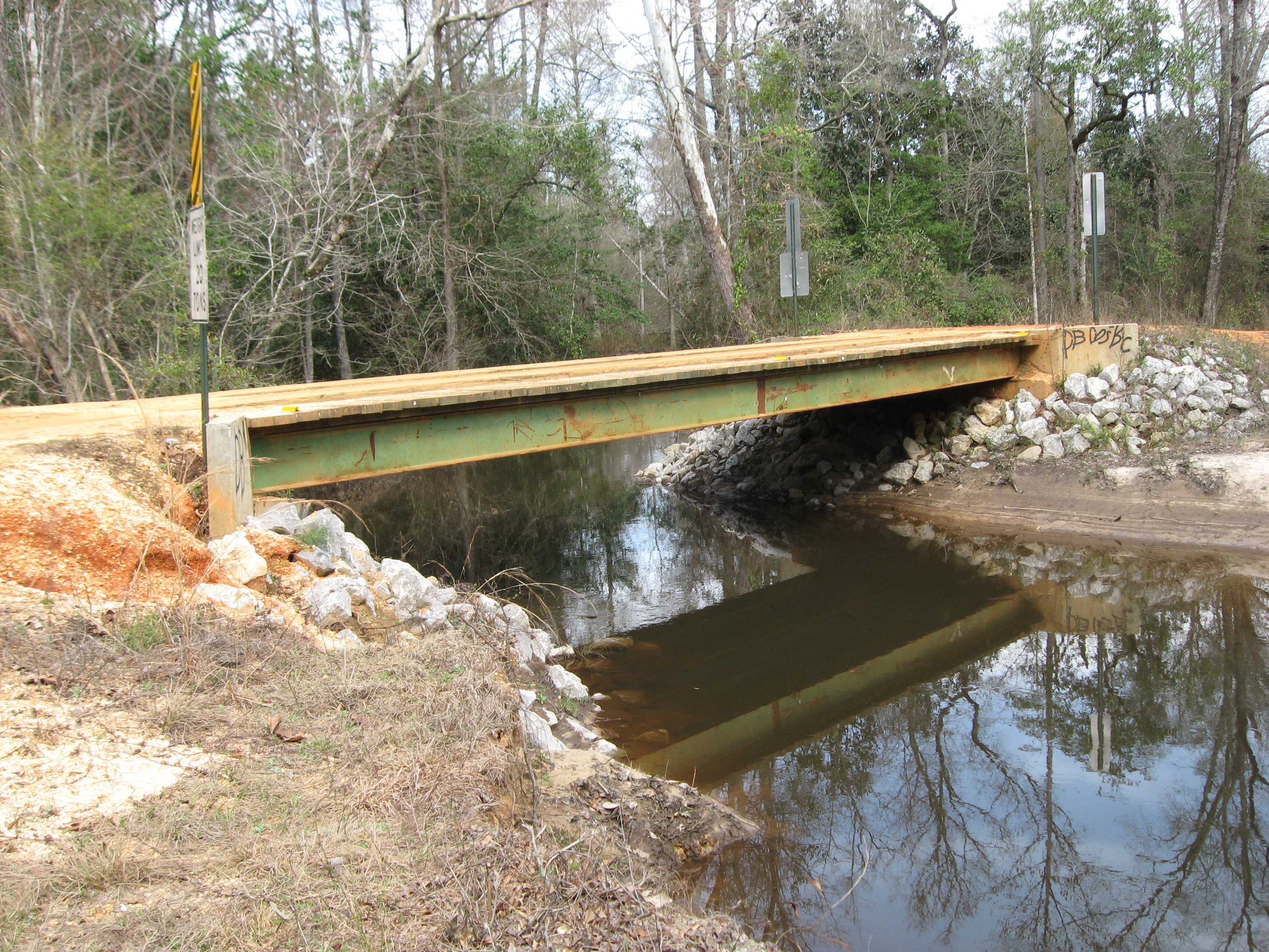 Side view of wooden bridge over Murder Creek near Burnt Corn. Photo 03/15/2015 by Craig Waters